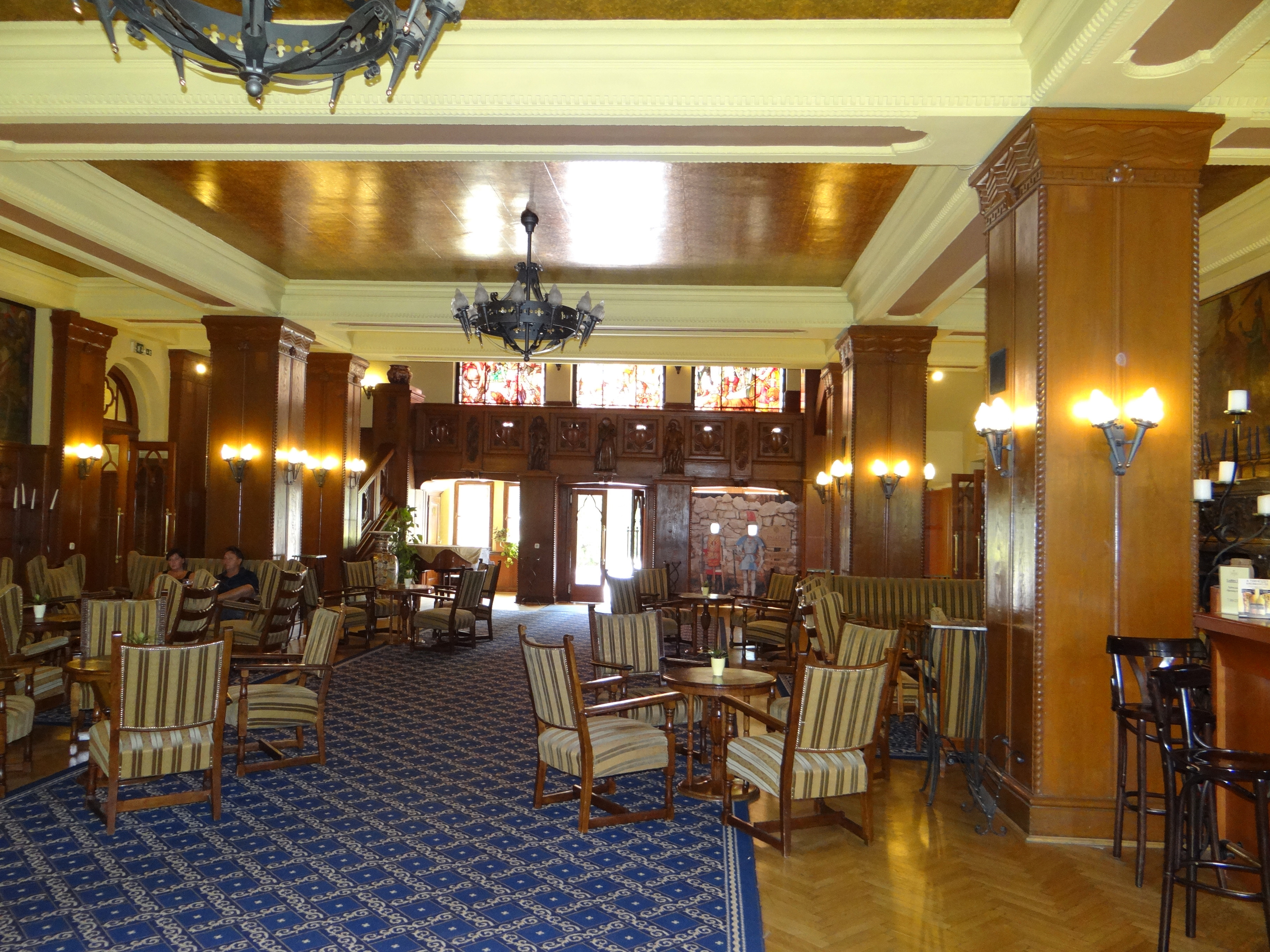 Palace Hotel, the lounge, Lillafüred, Hungary